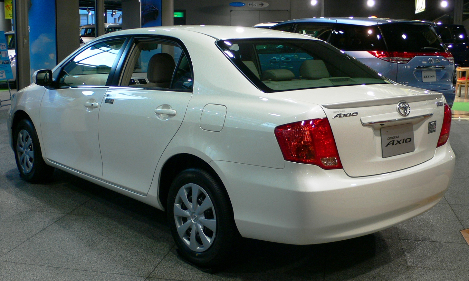 Toyota_Corolla-Axio (2006 - ) photographed in AMLUX